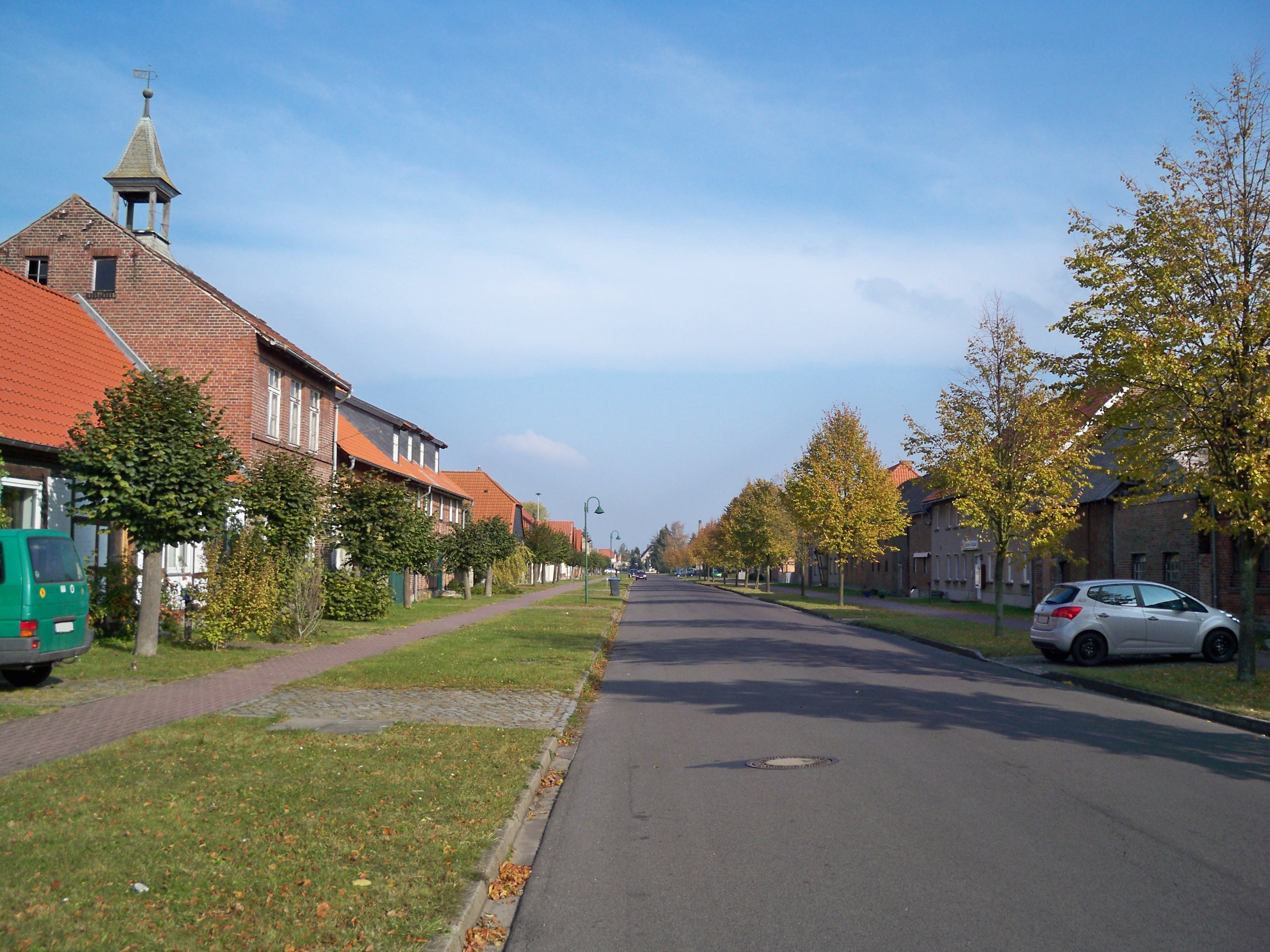 Wassensdorf, Oebisfelde-Weferlingen, Saxony-Anhalt, street view from South